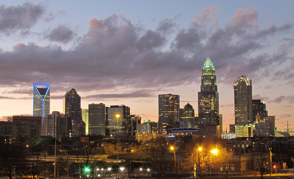 Charlotte, North Carolina skyline in January of 2011, taken from Central Piedmont Community College. Taken by Ricky W.